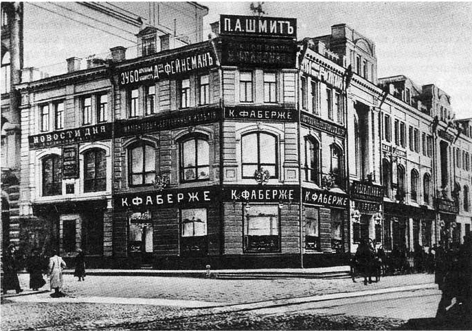 Moscow, Kuznetsky Most 4, shop of Faberge